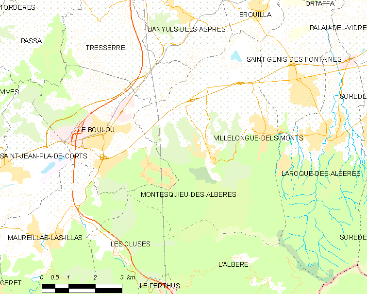 Map of French municipality